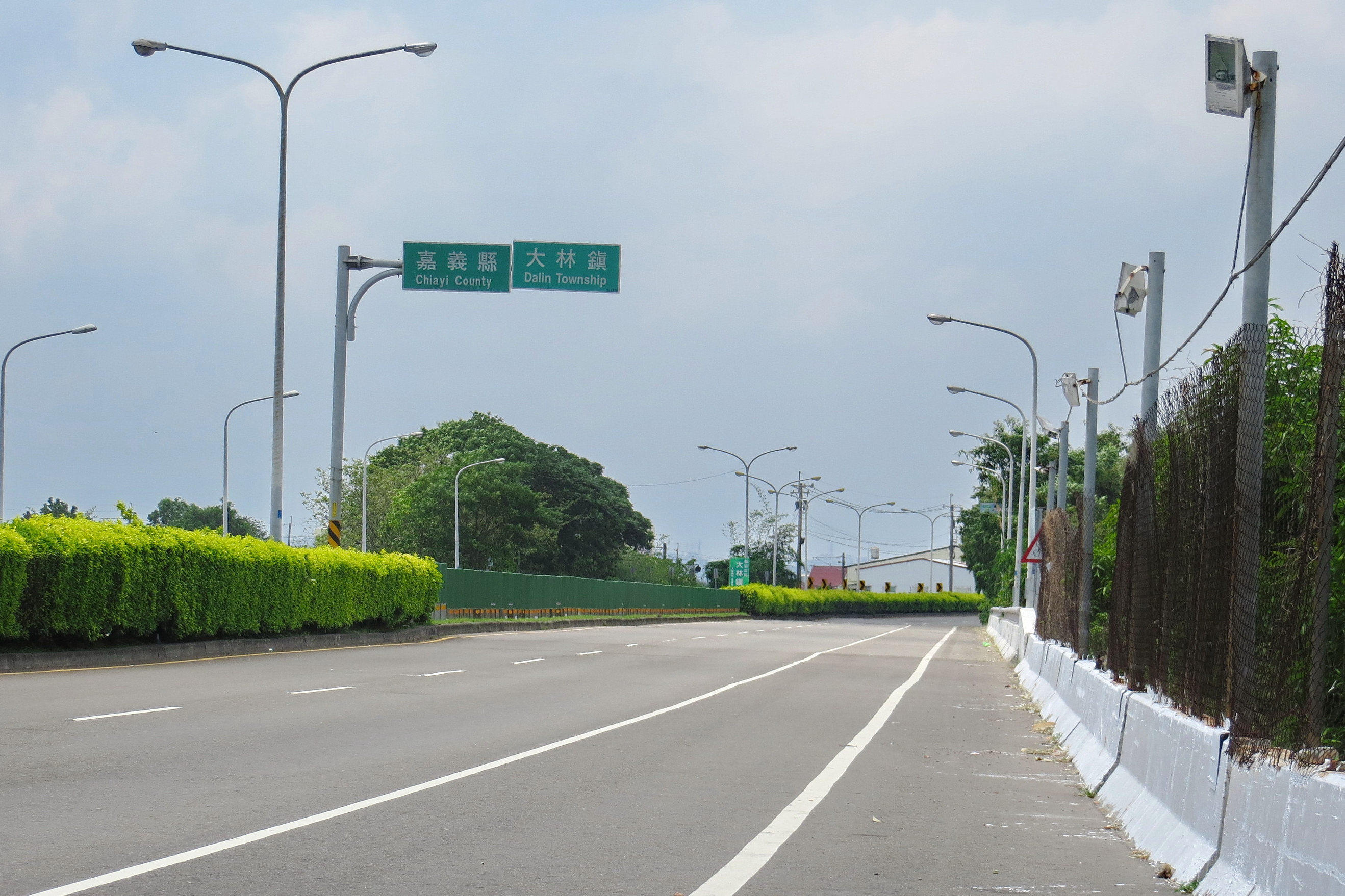 Provincial Highway 1, at Dapi Township looking south at Dalin Township, Taiwan.